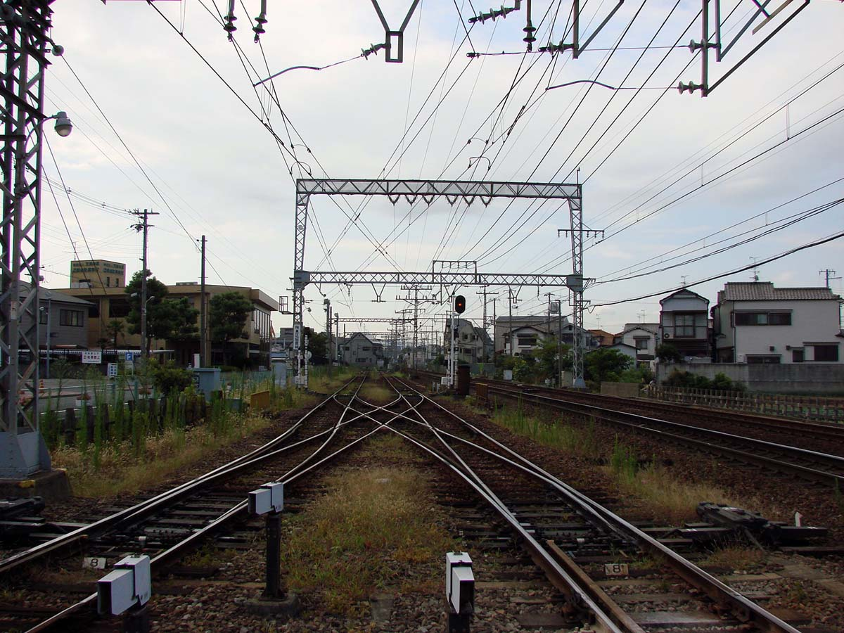 Sidings at Kintetsu Kawachi-Amami Station